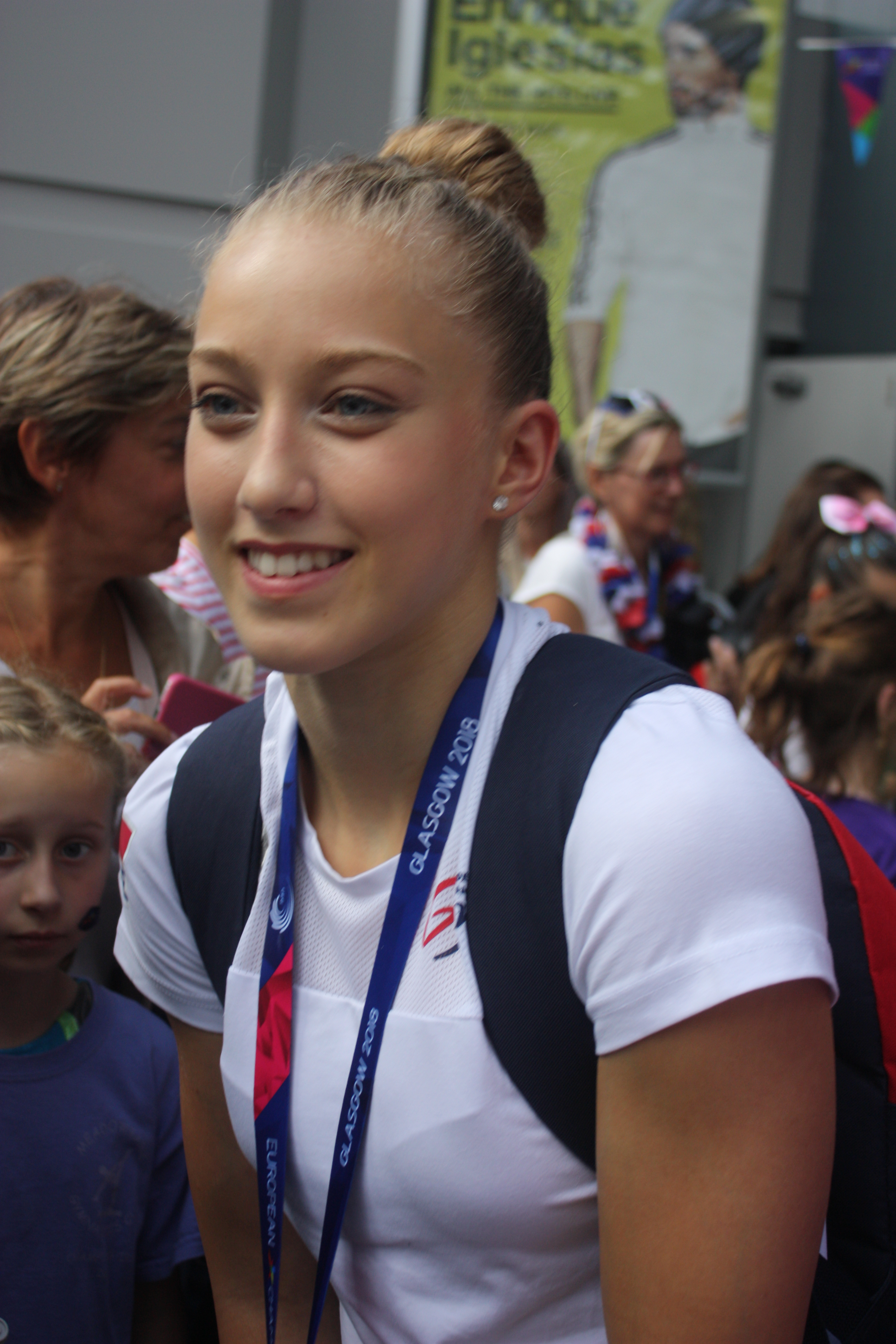 Juliette Bossu after her team silver medal at the 2018 European Championships in Glasgow.